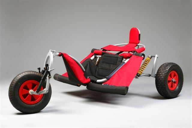 Industrial_design_syngalowsky_college